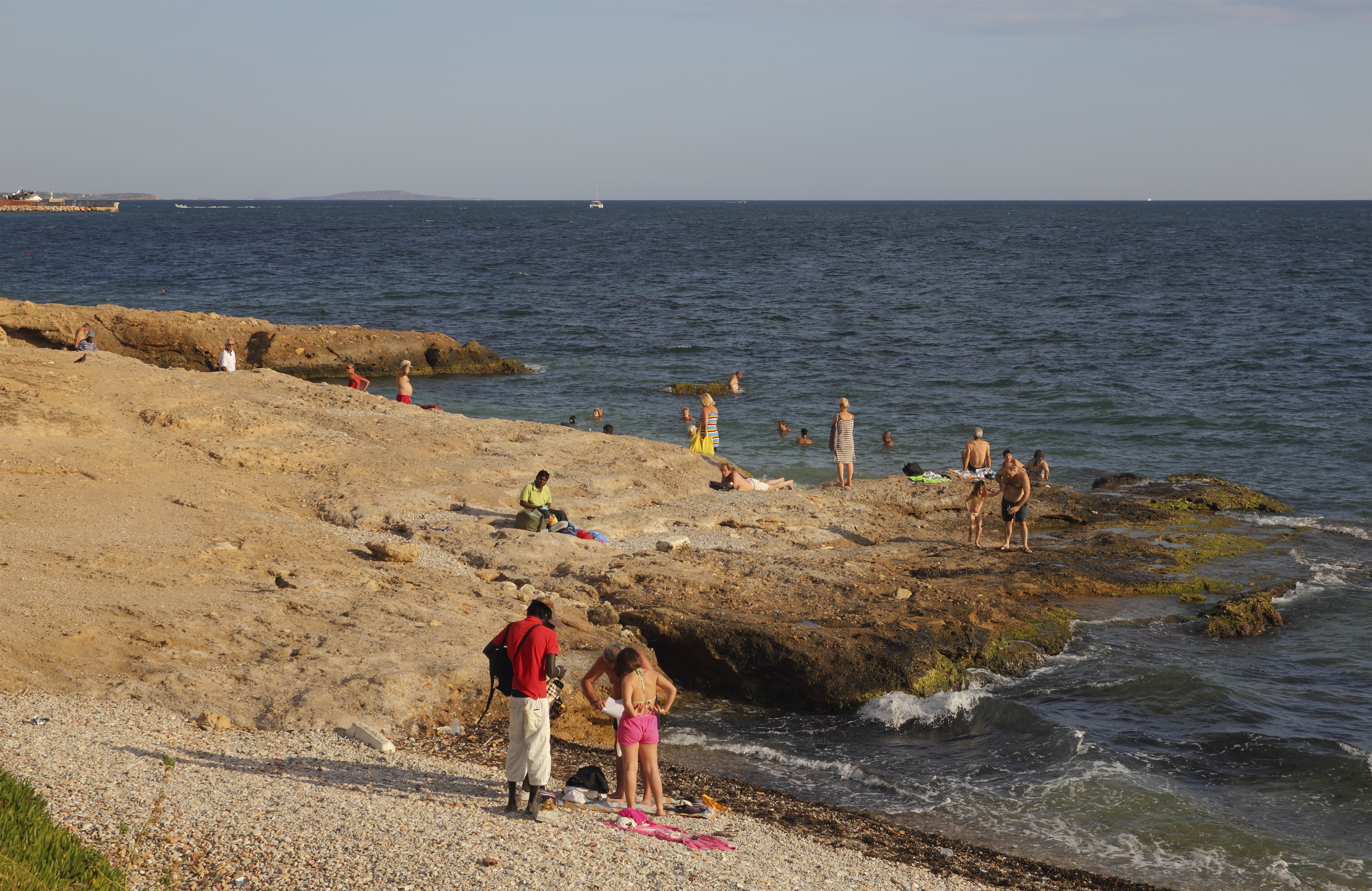 Saronic Gulf beach in Paleo Faliro (Attica, Greece)